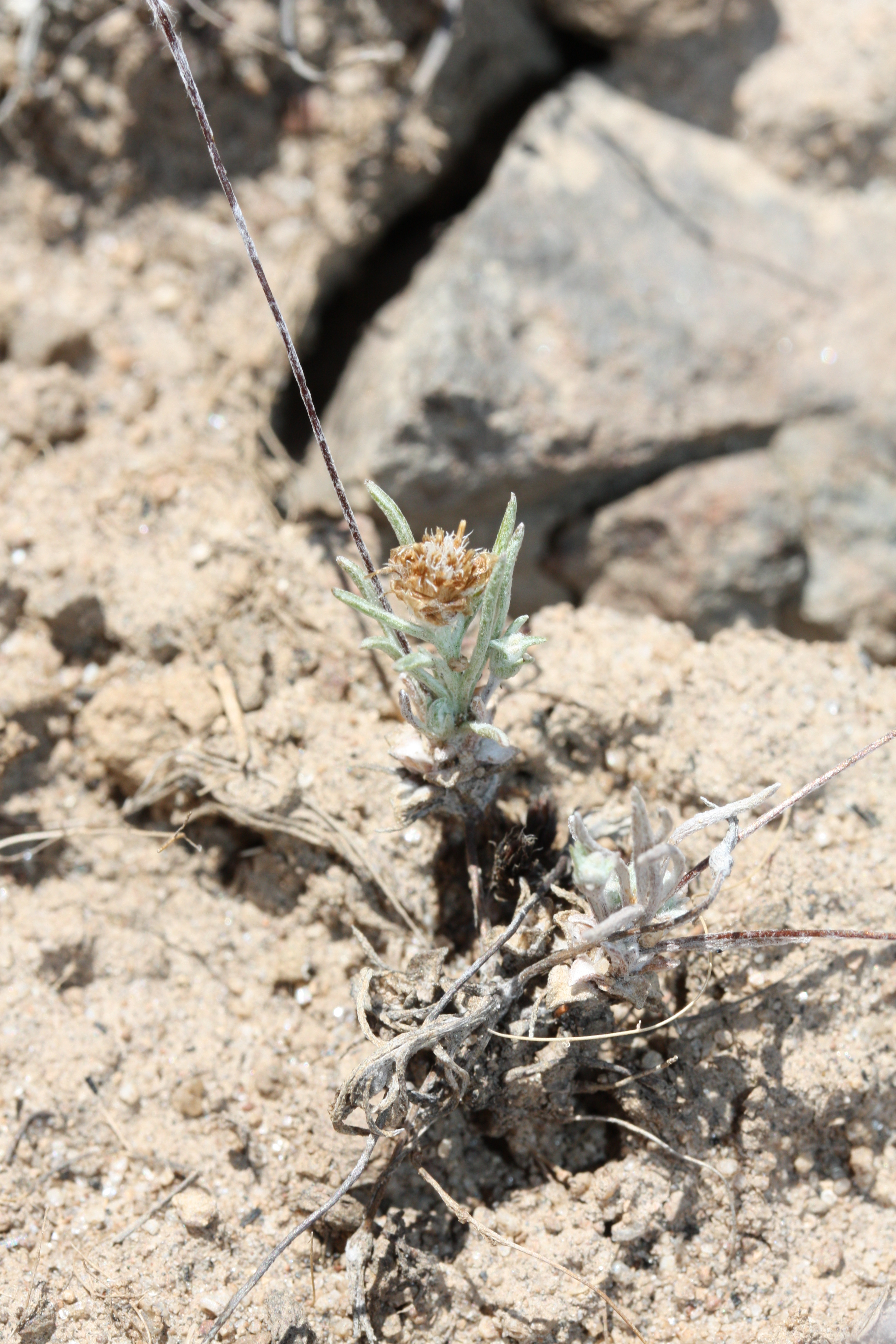 Whip Pussytoes, Stoloniferous Everlasting, Flagellate Pussytoes